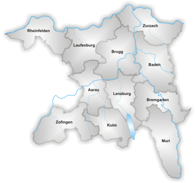 Map of districts in Canton Aargau drawn by Tschubby under GFDL Artist: Image